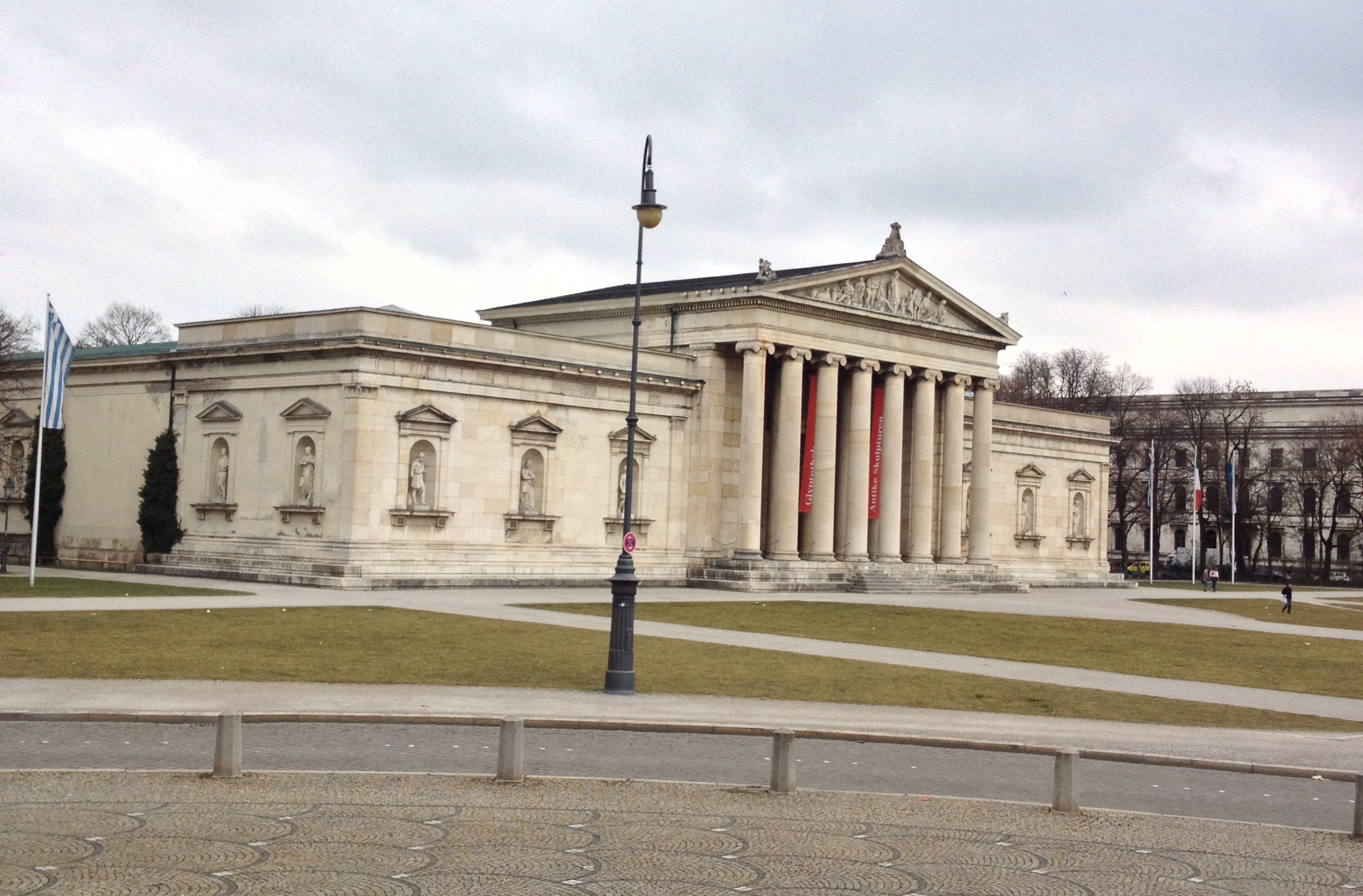 Gliptoteca in Munich